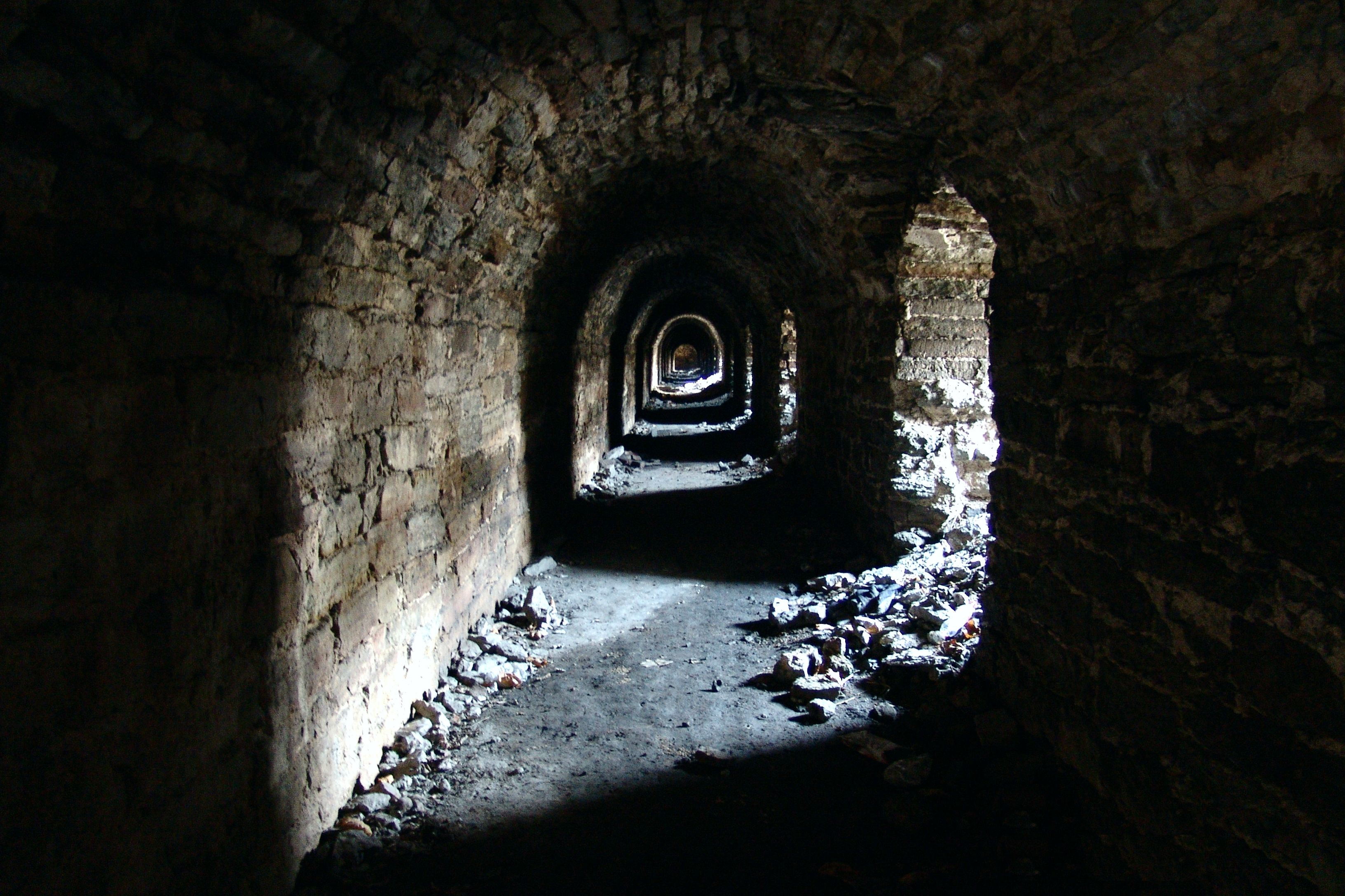 Bastion Gloria of Narva castle. A vaulted tunnel.